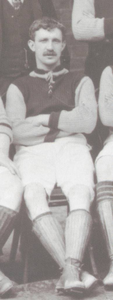 Charlie Athersmith cropped from the 1897 Aston Villa team photo.